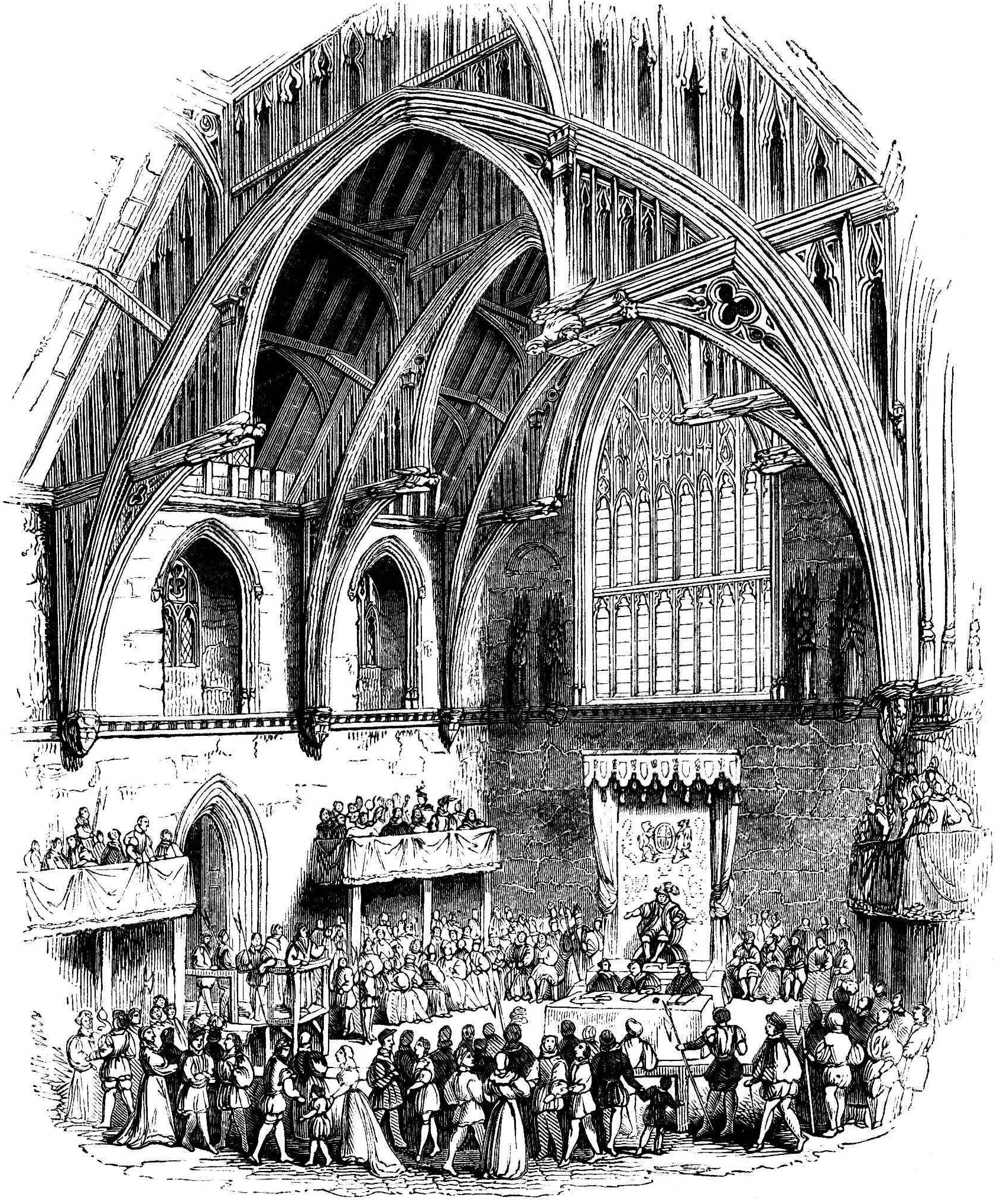 Interior of Westminster Hall, as seen during the Trial of Lambert (before Henry VIII). From the book "London (Volume VI)" by Charles Knight.